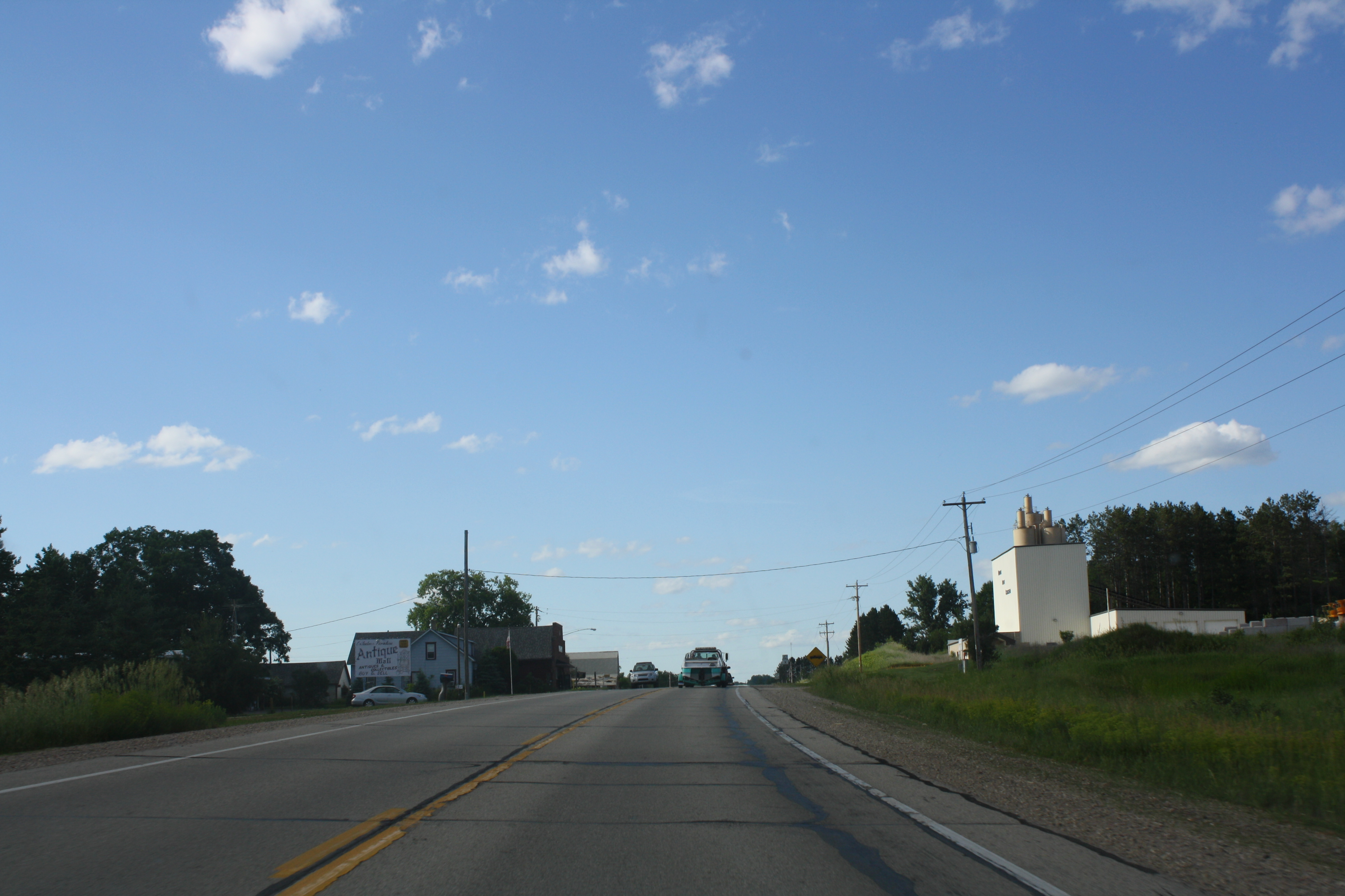 "Downtown" Middle Inlet (community), Wisconsin on U. S. Route 141.